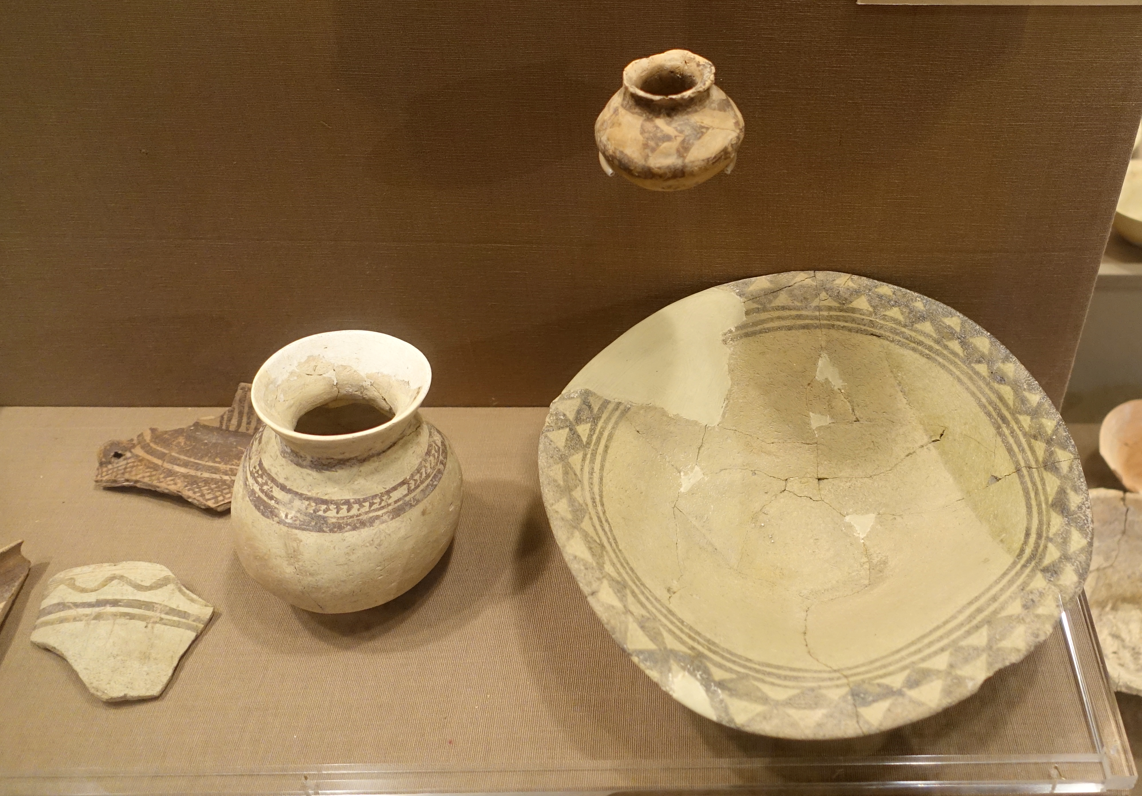 Exhibit in the Oriental Institute Museum, University of Chicago, Chicago, Illinois, USA. This work is old enough so that it is in the public domain.